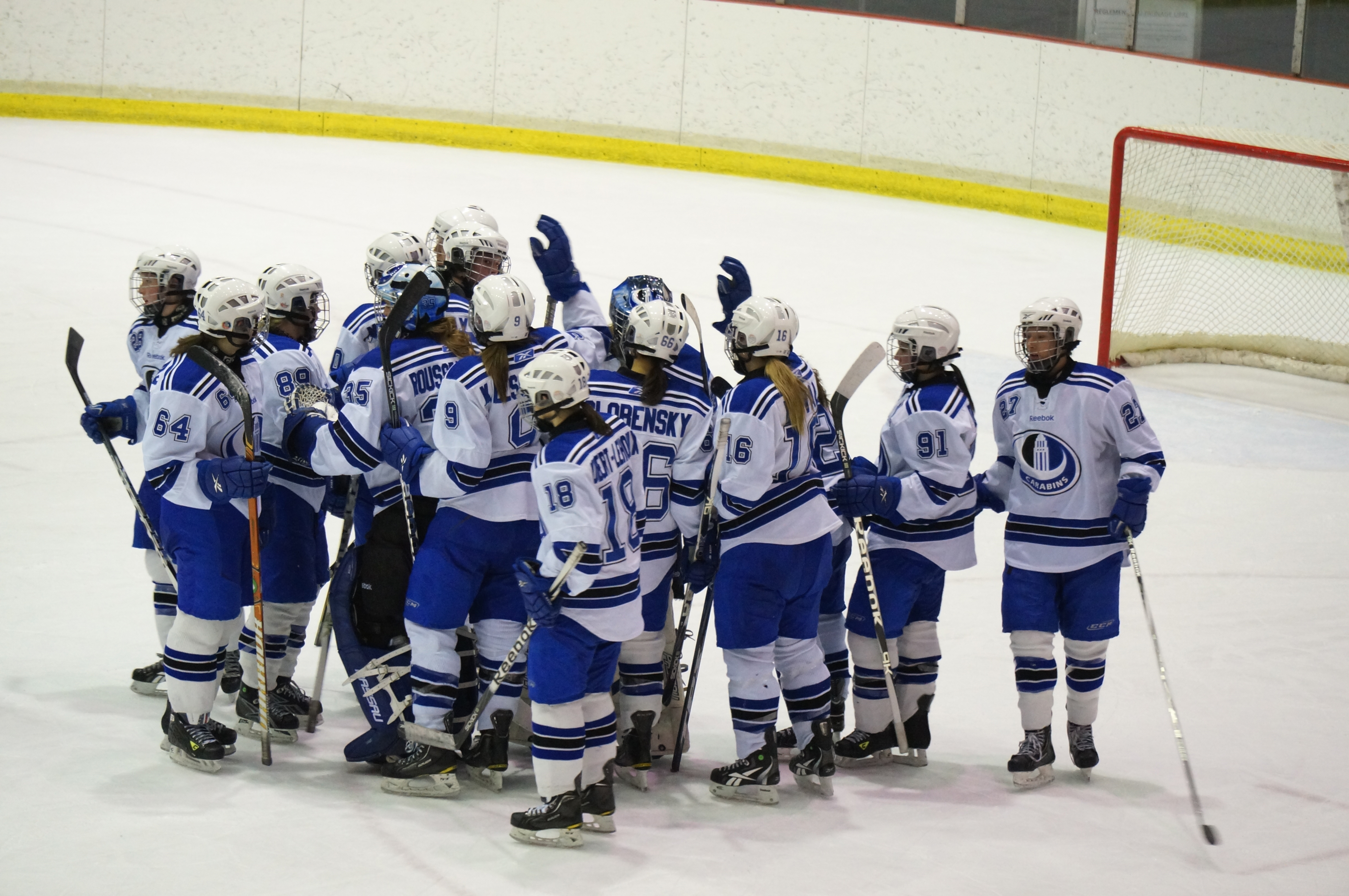 Montreal Carabins women's ice hockey team defend the colors of the Université de Montréal and are members of the Quebec Student Sports Federation (RSEQ), and compete for the Canadian Interuniversity Sport women's ice hockey championship. One Carabins player have participated internationally, including the World Student Games.